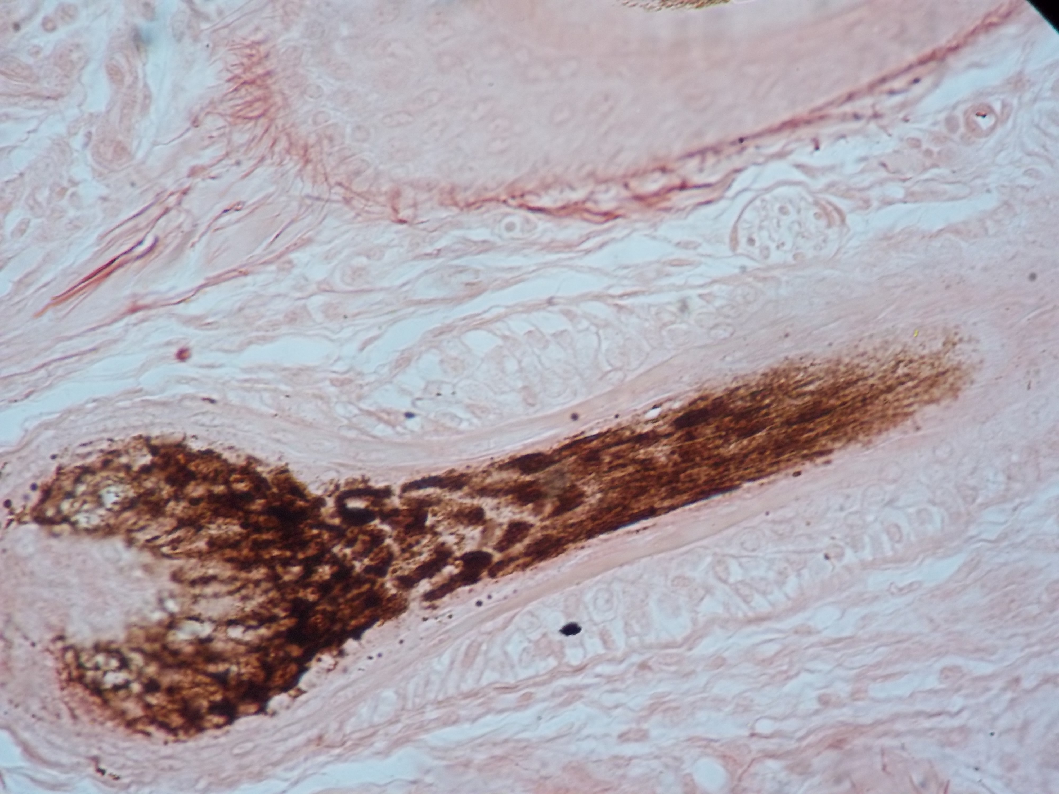 Optic micrography of a longitudinal section of a hair follicle from scalp, stained with fuchsin and resorcinol. Surrounding the follicle there is a slim layer of connective tissue and immediately above and below epithelial cells of sebaceous glands can be seen. Magnification: 400X